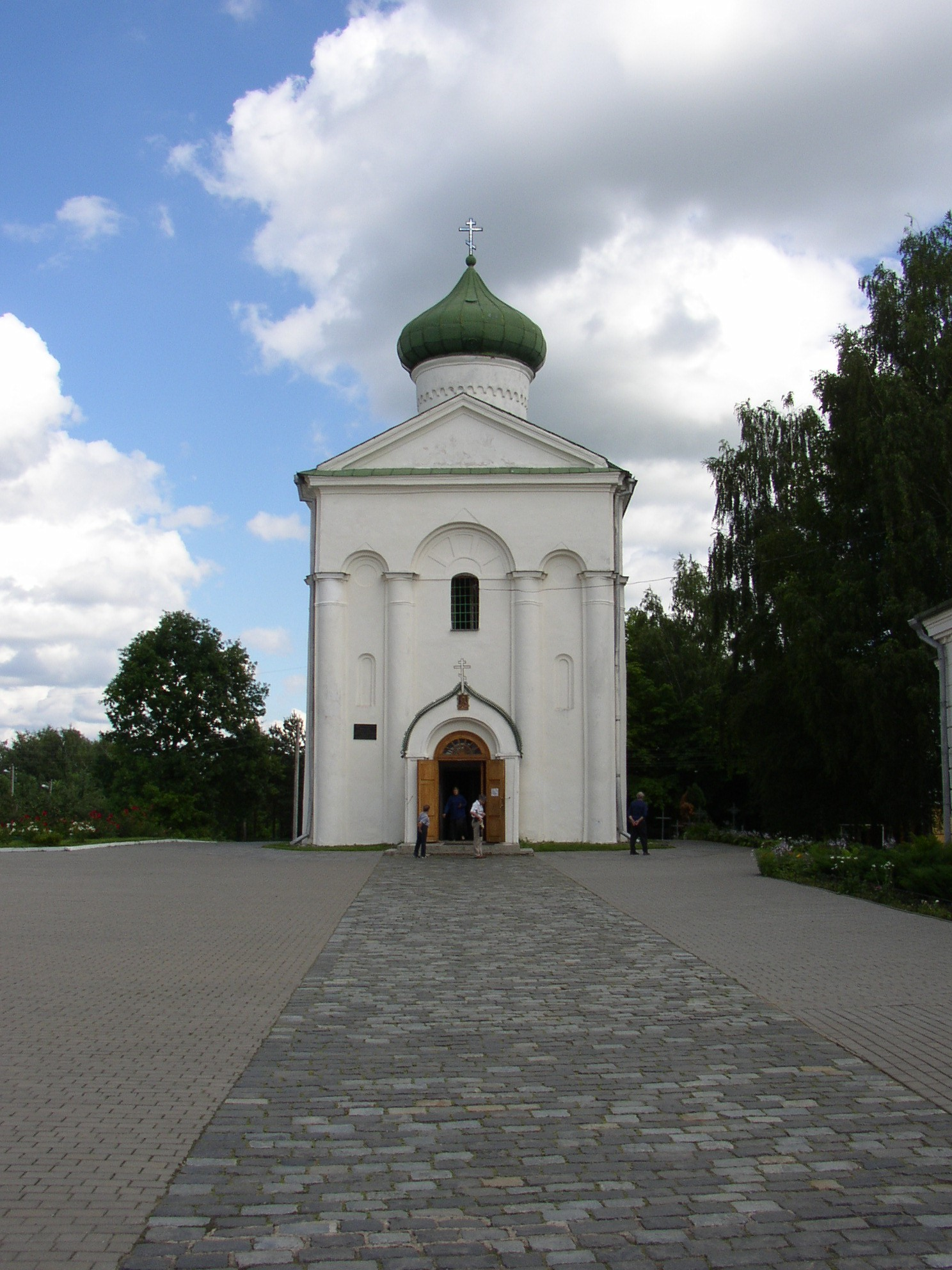 Church of the Transfiguration. Polatsk, Belarus.